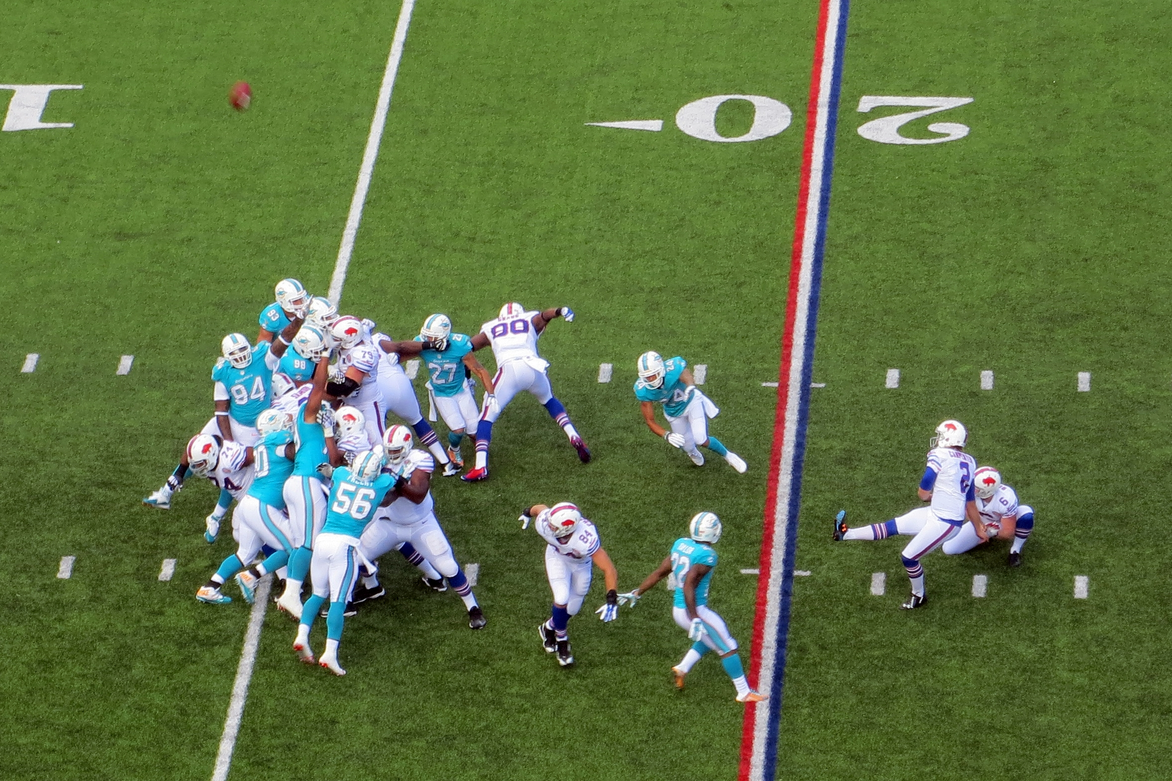 14 September 2014. Final score: Buffalo 29, Miami 10. Carpenter kicked 5 field goals in the game.